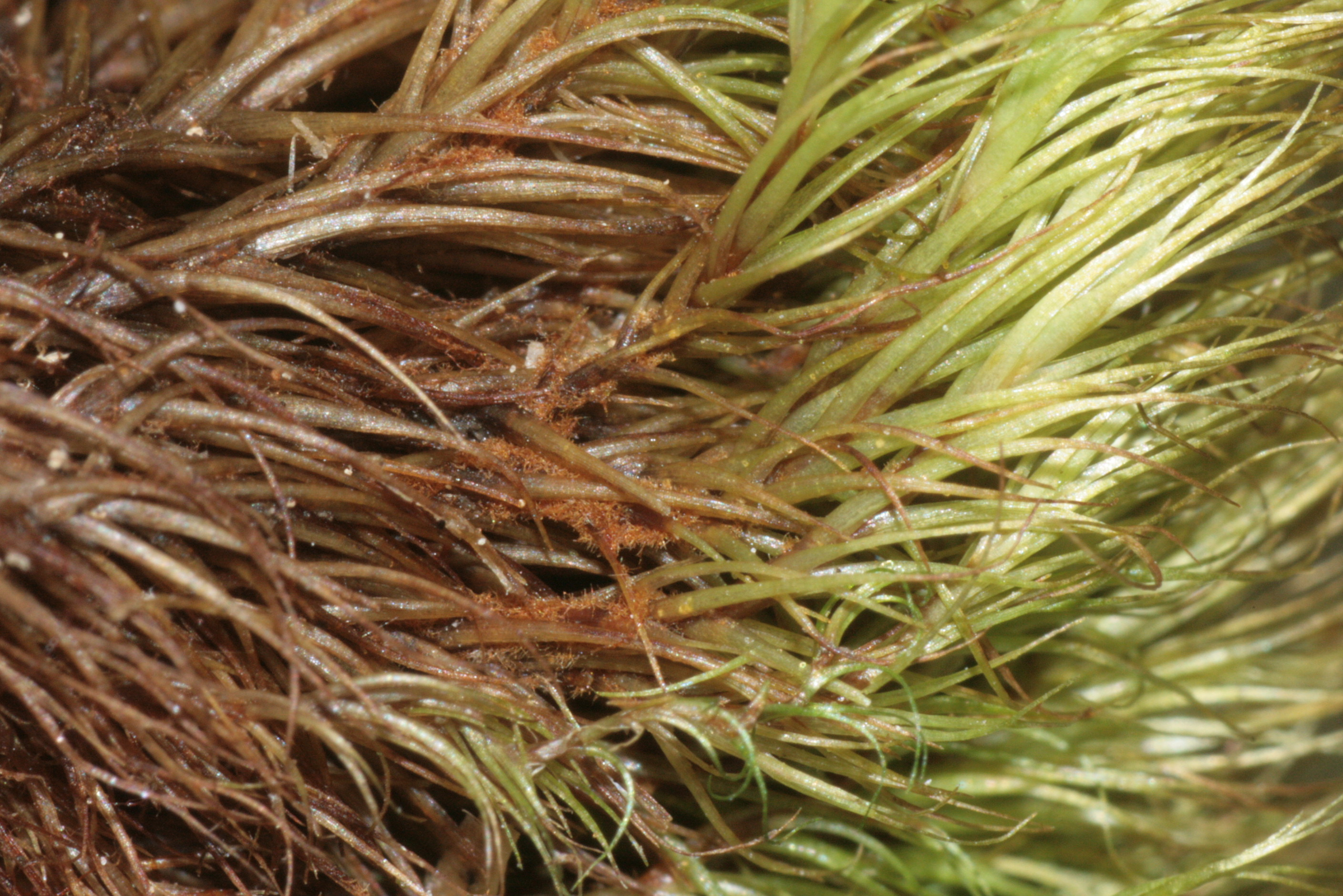 Paraleucobryum longifolium